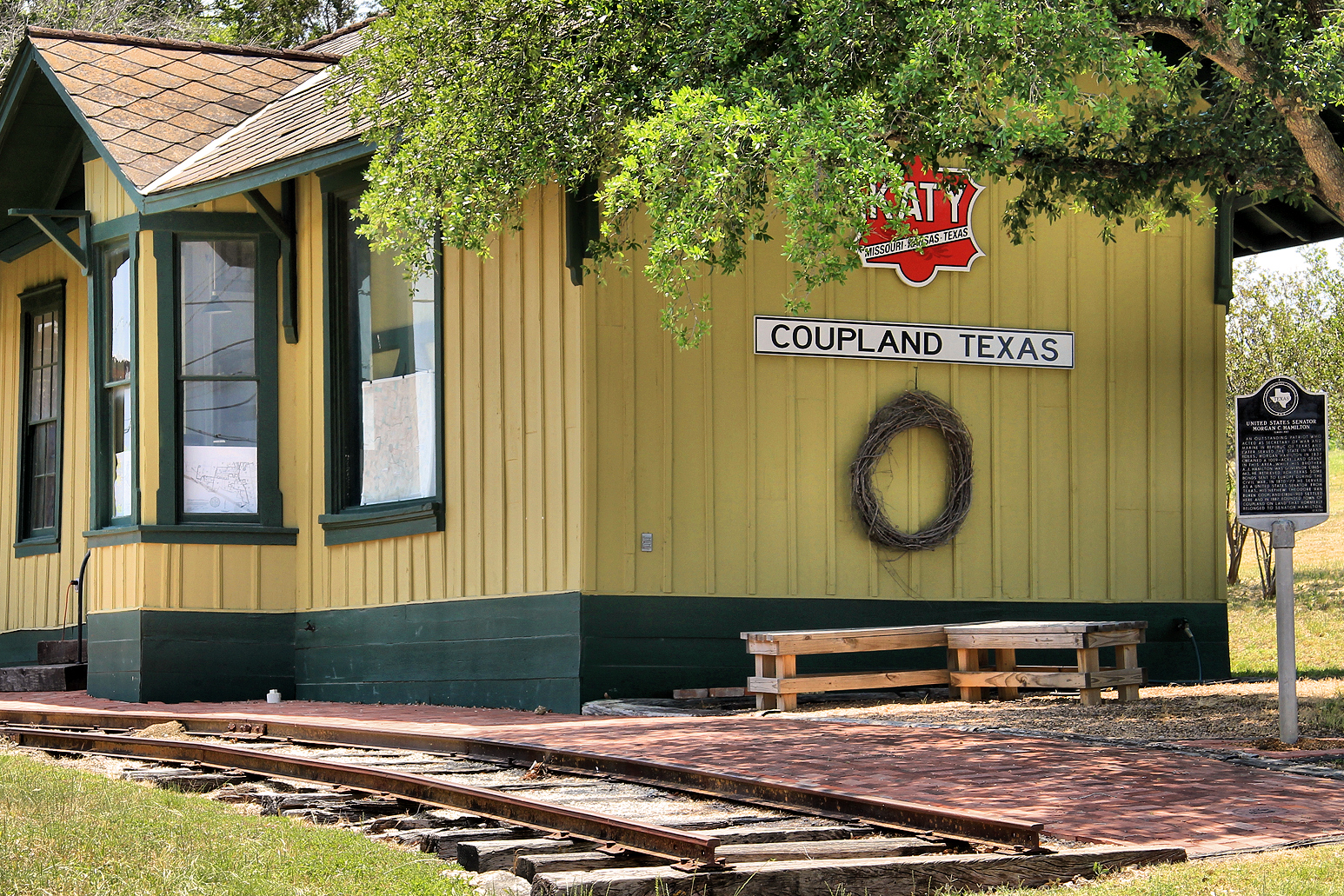 Historic train station in Coupland, Texas, United States.